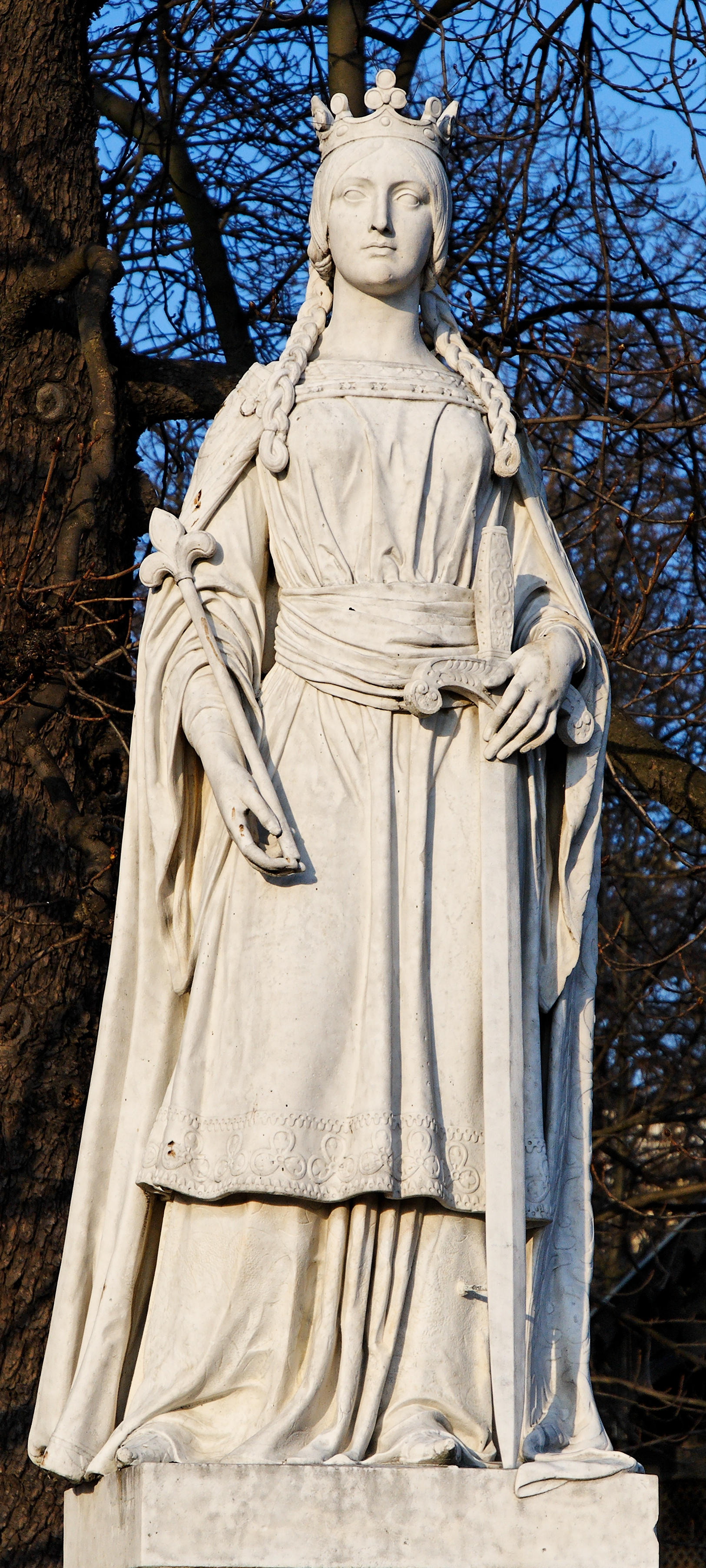 Matilda of Flanders, queen consort of England and wife of William the Conqueror, by Carle Elshoecht (1850). Luxembourg Garden, Paris.